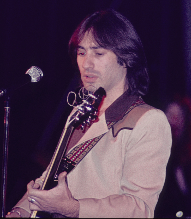 10cc - 13 - April 1976 -Lol Creme, band's guitarist